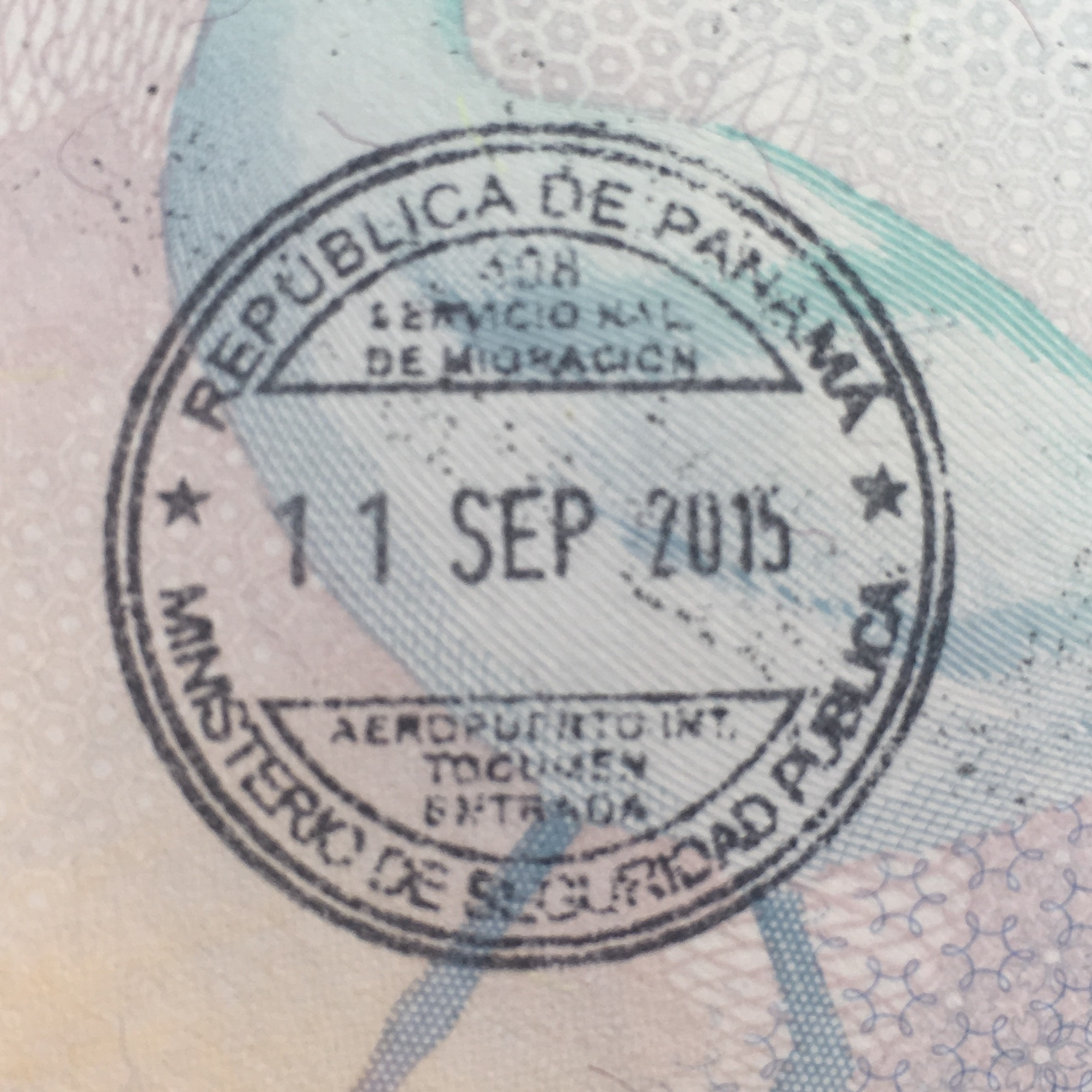 Panamanian entry stamp.